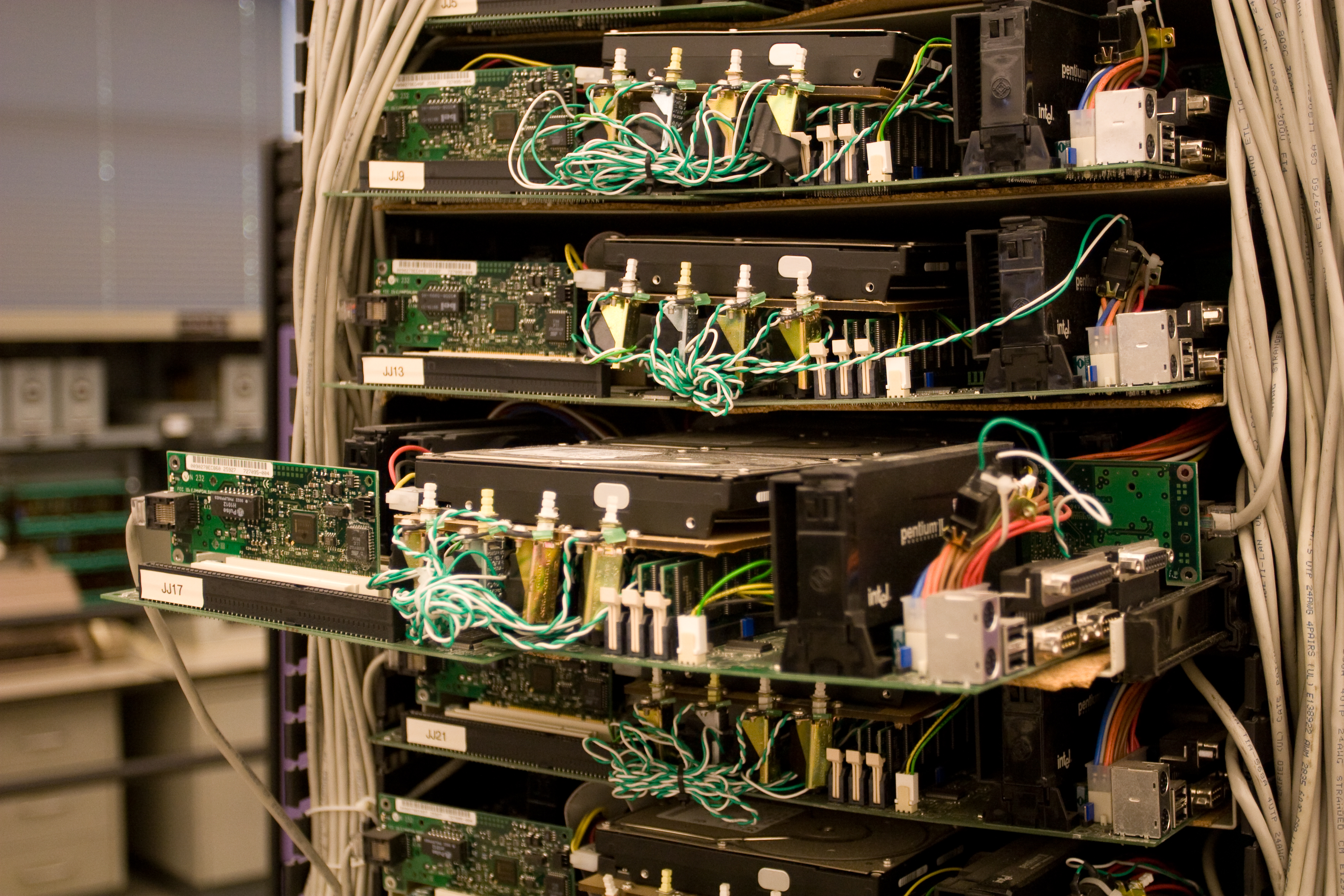 Photograph of one of the first Google server racks - now in the Computer History Museum in Mountain View